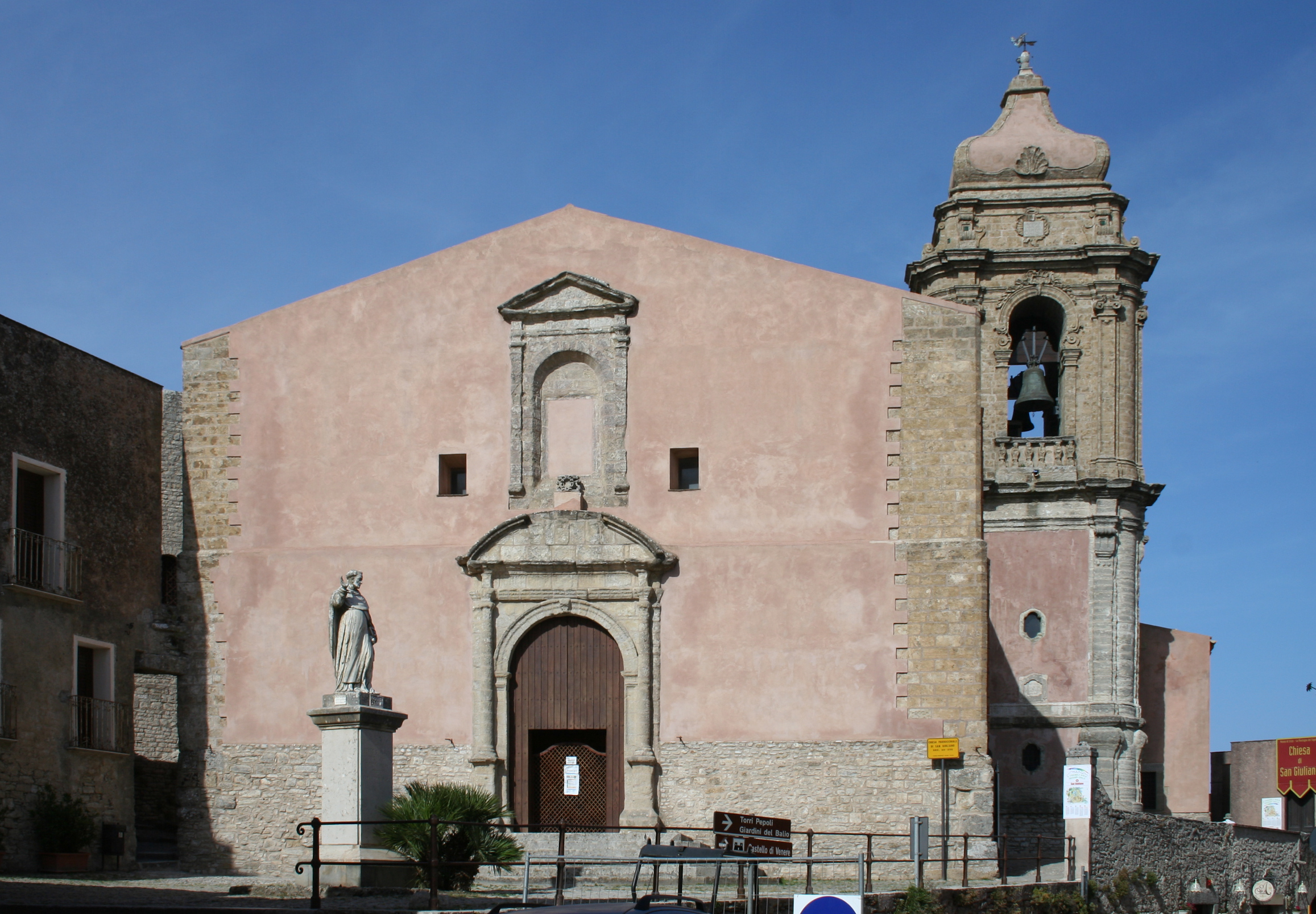 San Giuliano church in the historic town of Erice, Sicily, Italy.